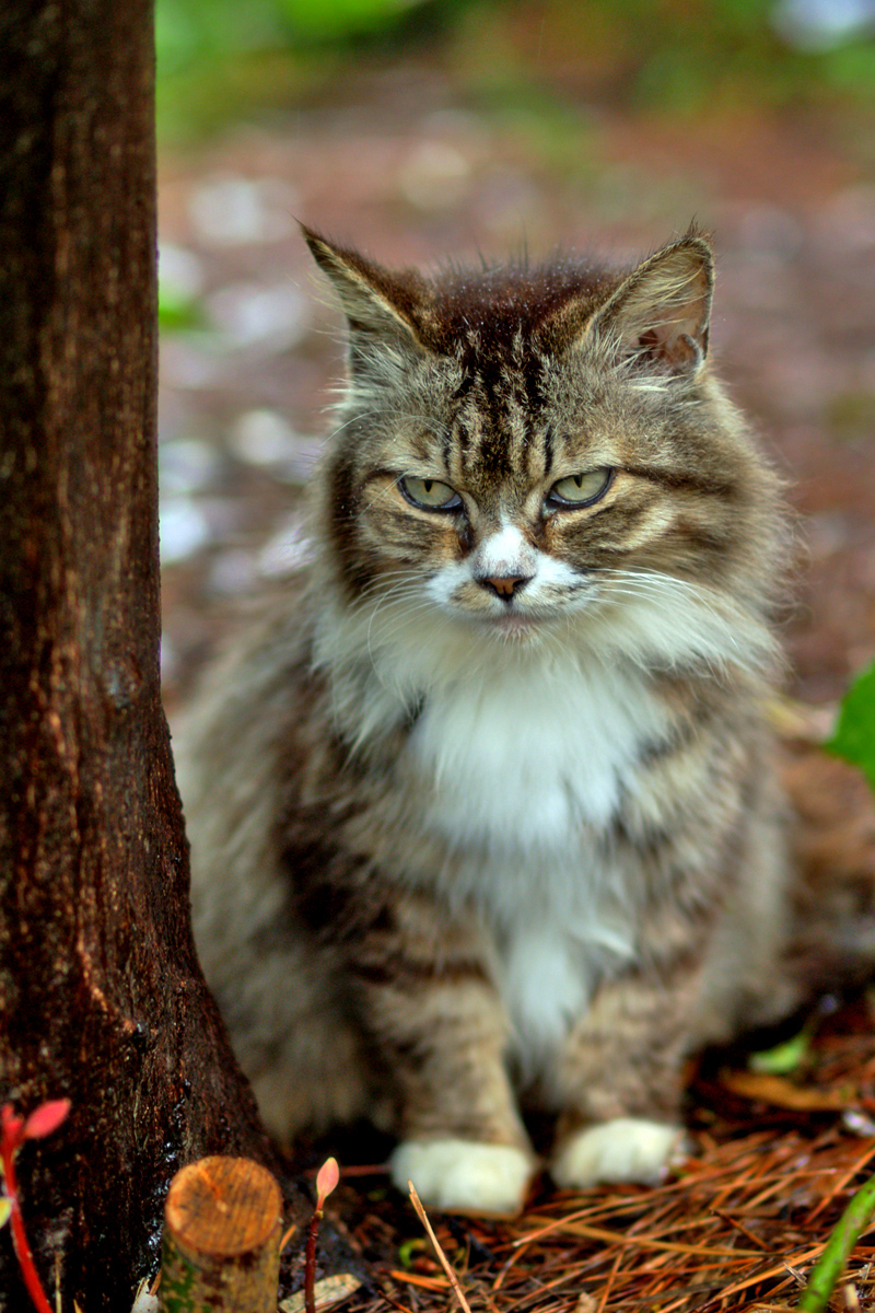 stray cat wailed in the rain..